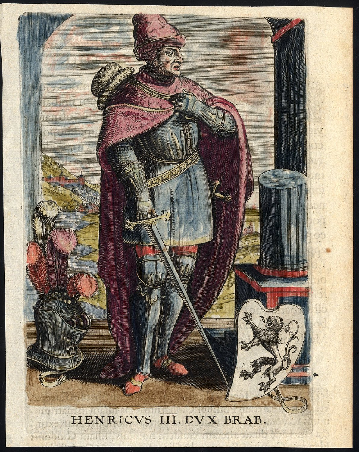 Henry III of Brabant